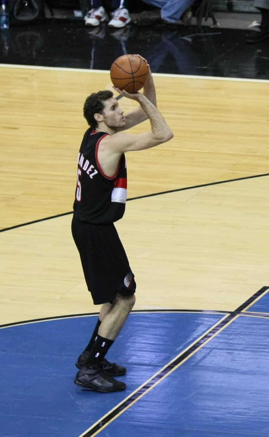 Rudy Fernandez playing with the Portland Trail Blazers